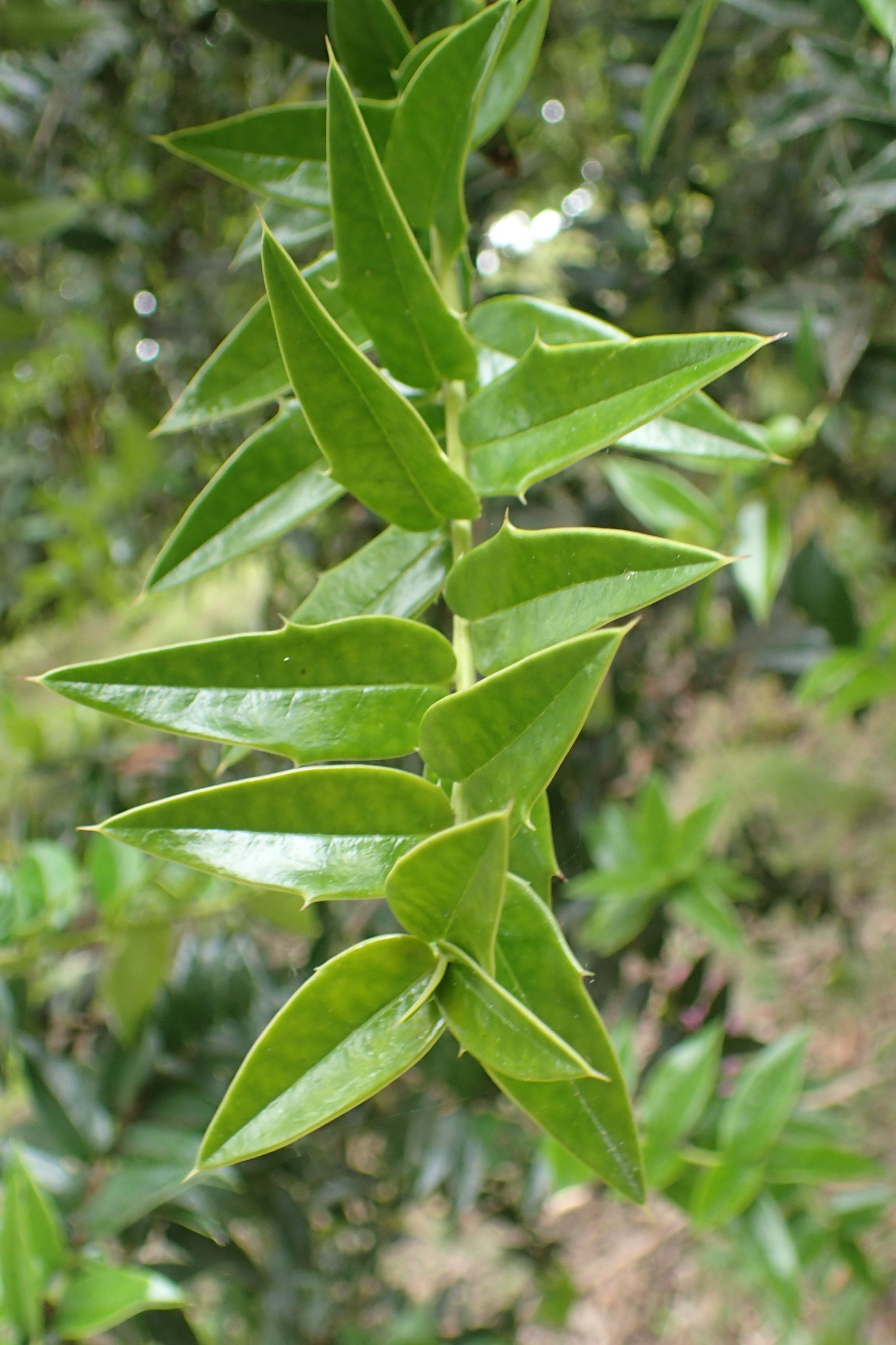 Ilex georgei in Hackfalls Arboretum, Hawkes's Bay, NZ